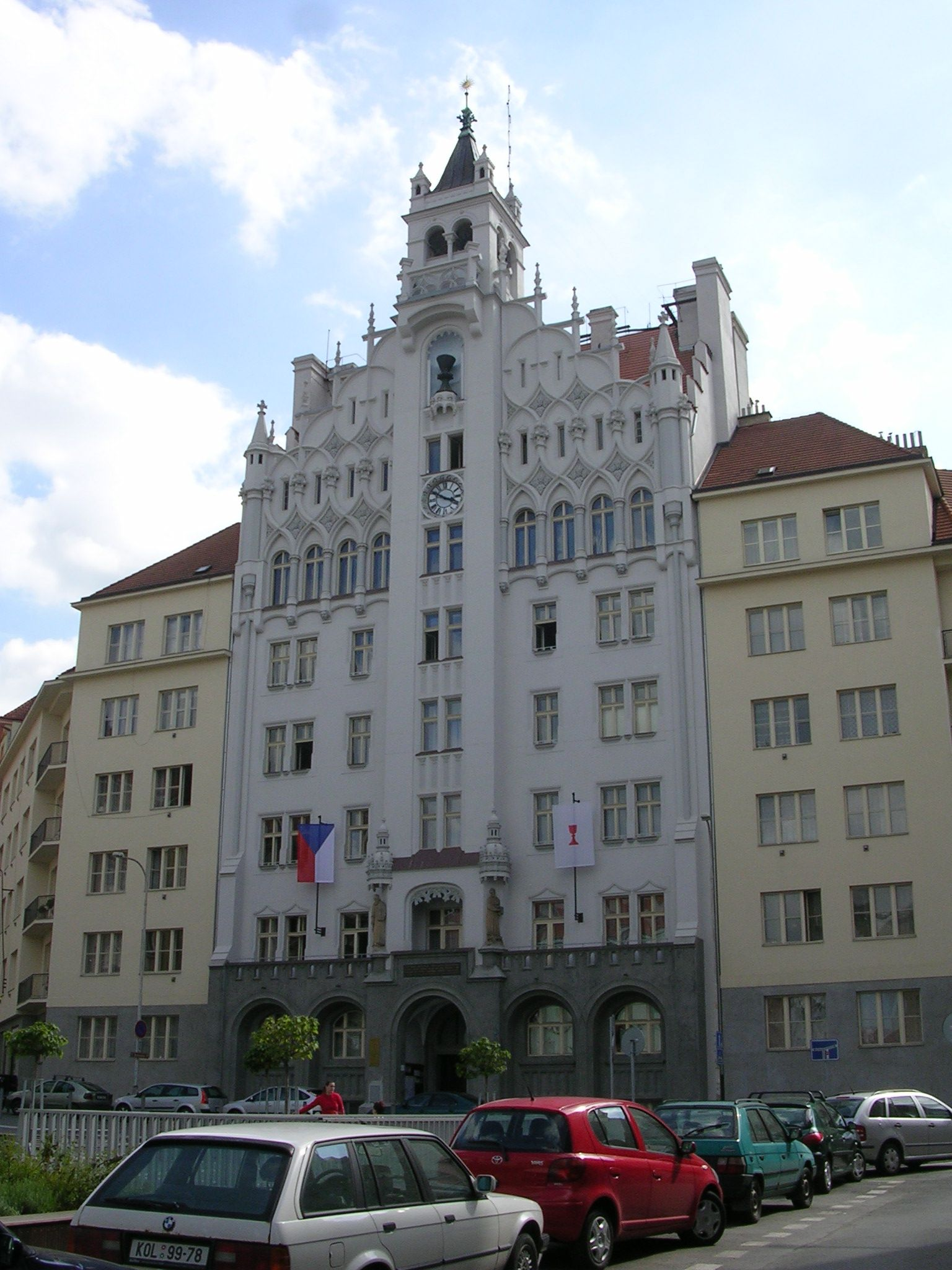 Prague-Dejvice, the Czech Republic. Central office and student's residence of Czechoslovak Hussite Church